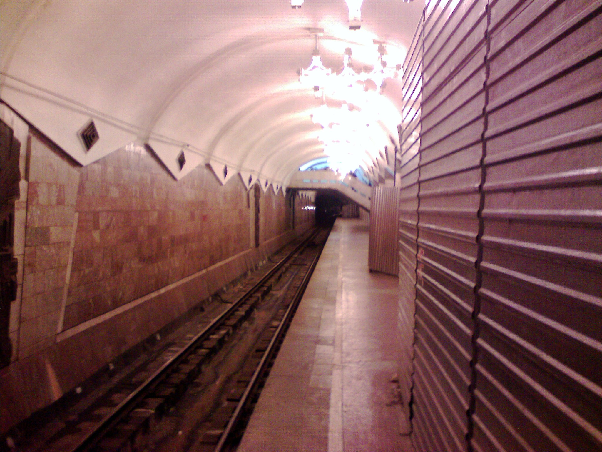 Emboss at subway stations Istorichesky Muzei.